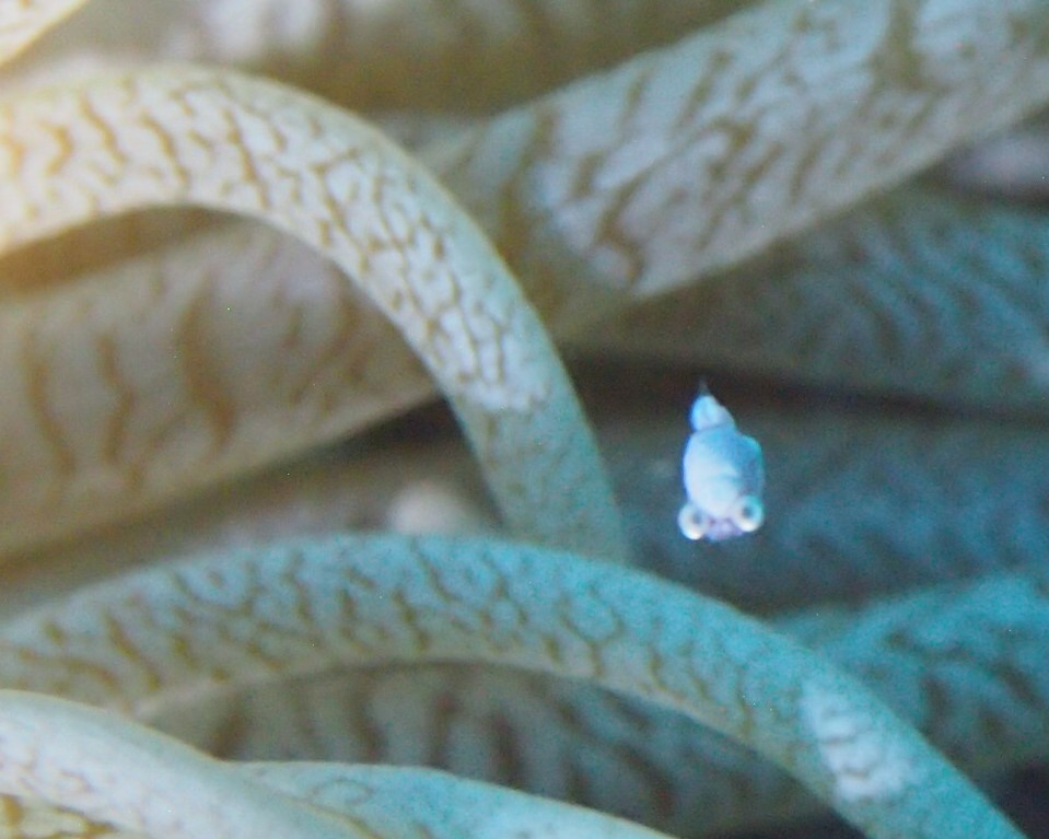 Idiomysis from Nuarro Bay, North of Mozambique